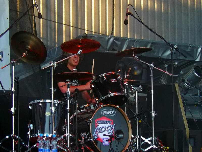 Michel Langevin, Masters of Rock 2009